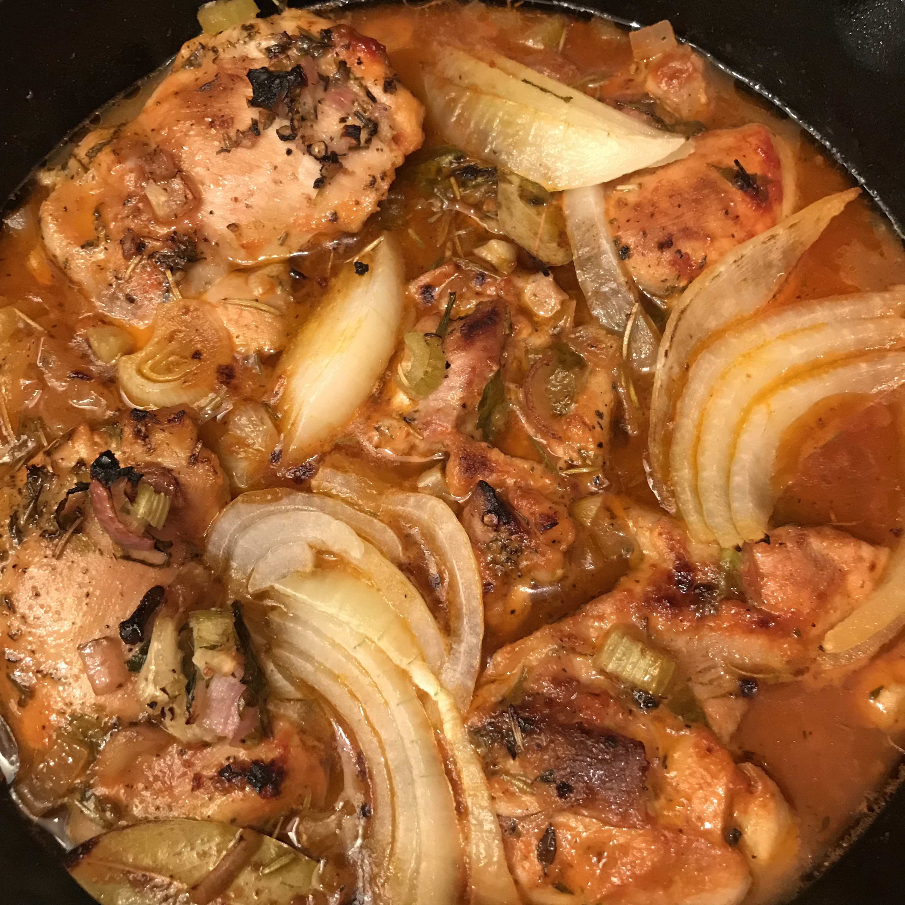 haitian chicken in creole sauce dish